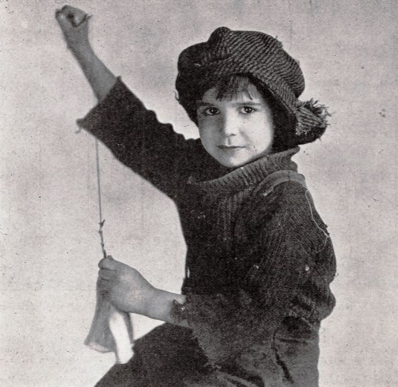 Still promoting the American comedy drama film Trouble (1922) with Jackie Coogan, on page 78 of the March 25, 1922 Exhibitors Herald.